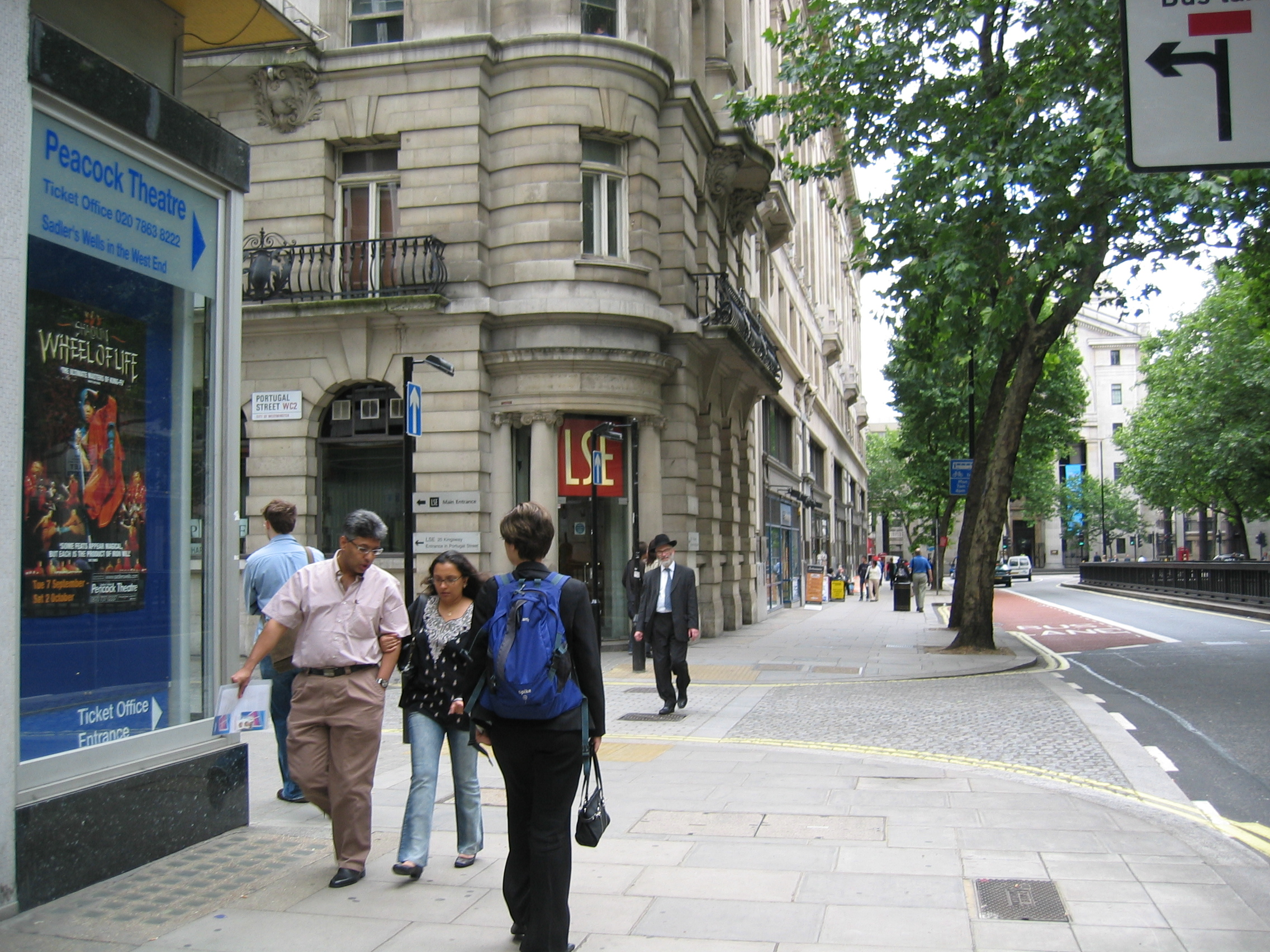 Kingsway_&_LSE_entrance